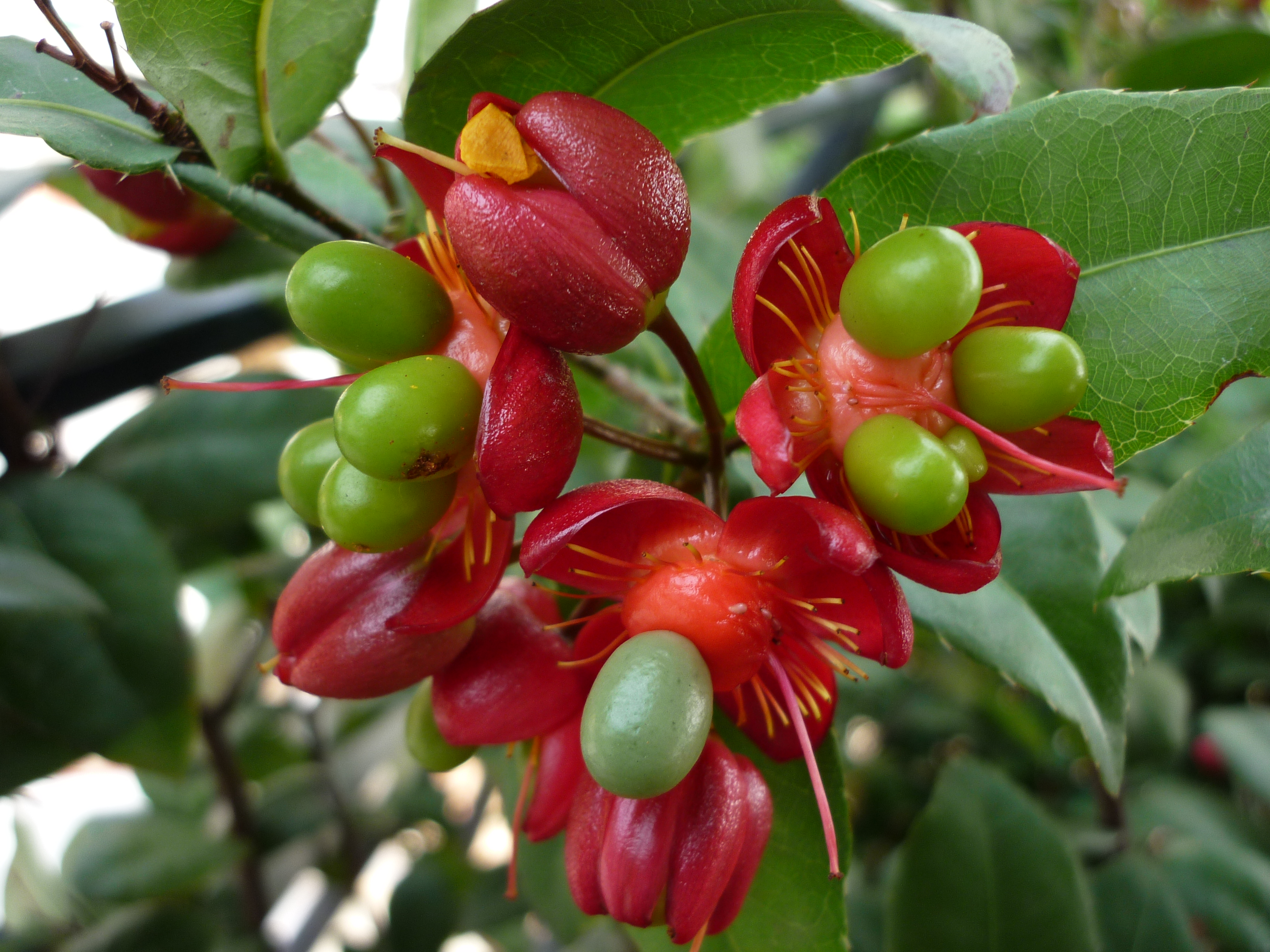 Ochna thomasiana with twin flowers